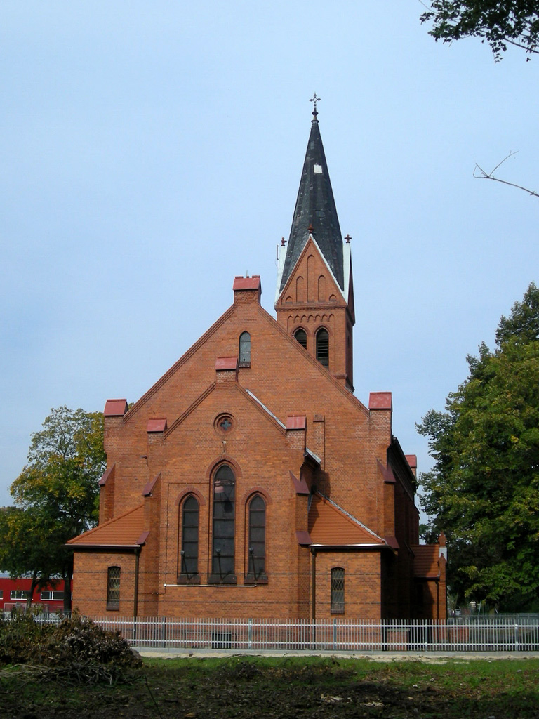 The church in Ciele, Poland.